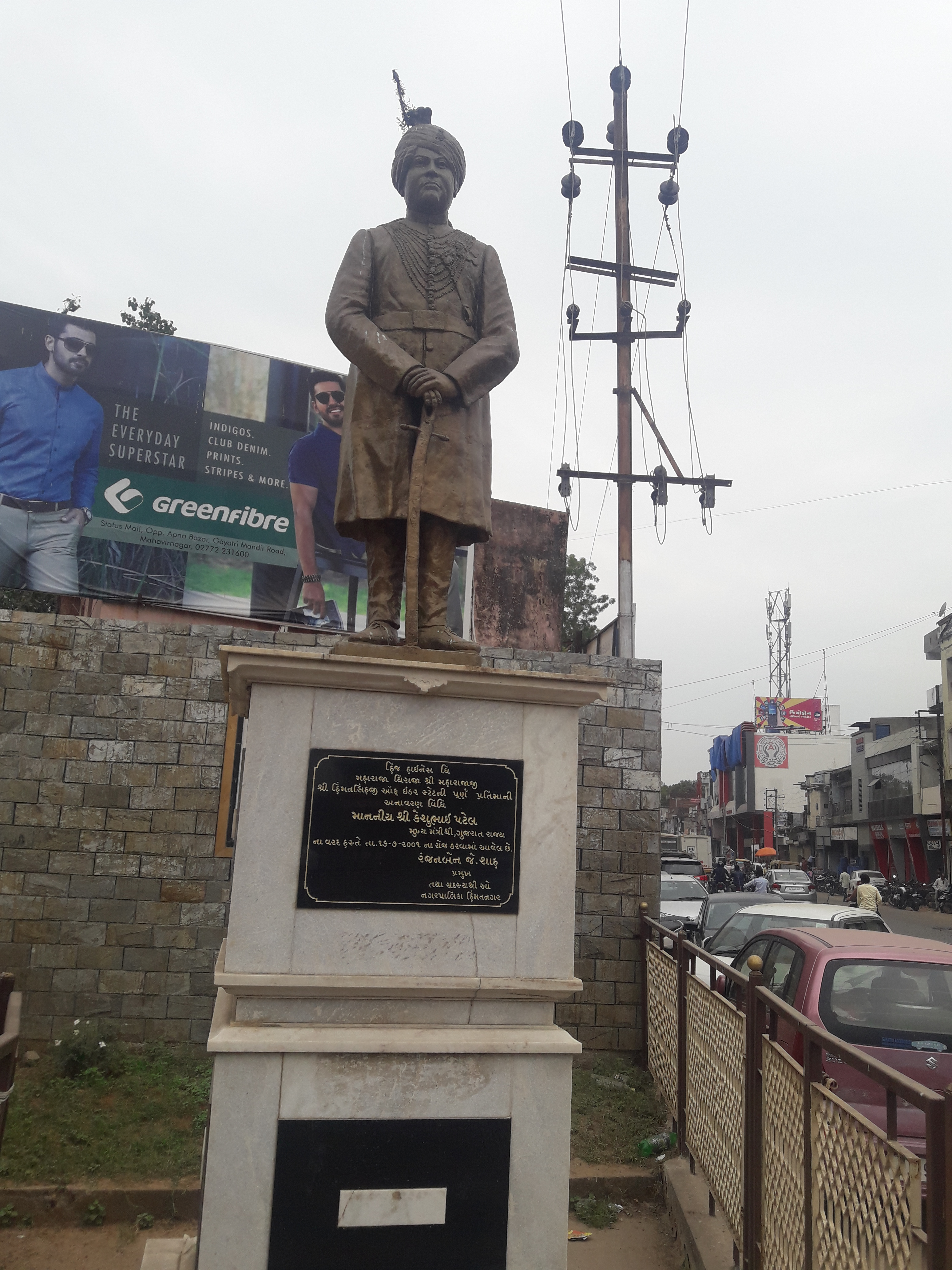 Statue of Maharaja Himmat Singh, the last ruler of Idar state, located at Nyay Mandir area of Himmatnagar, Gujarat.